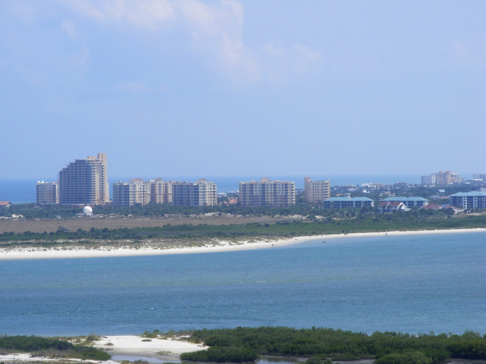 Aerial view of New Smyrna Beach, Florida, from the observation deck, top of the Ponce de Leon Lighthouse from across Ponce Inlet. (maximum zoom)